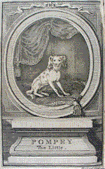 Front from Francis Coventry: The History of Pompey the Little; or, The Life and Adventures of a Lap-Dog, London 1751. Etching by Louis Boitard